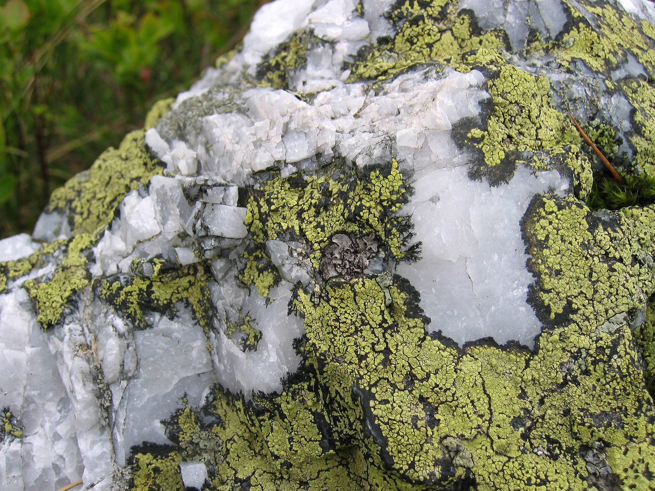 Rhizocarpon geographicum on quartz; Habitat: Stein am Mandl, Styria, Austria